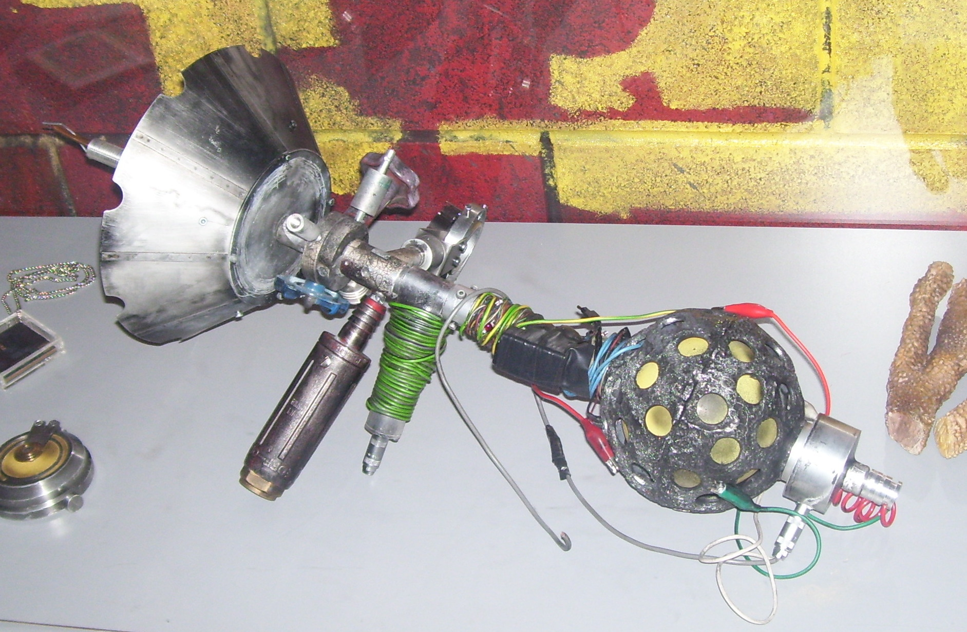 Doctor Who exhibit Doctor Who Experience